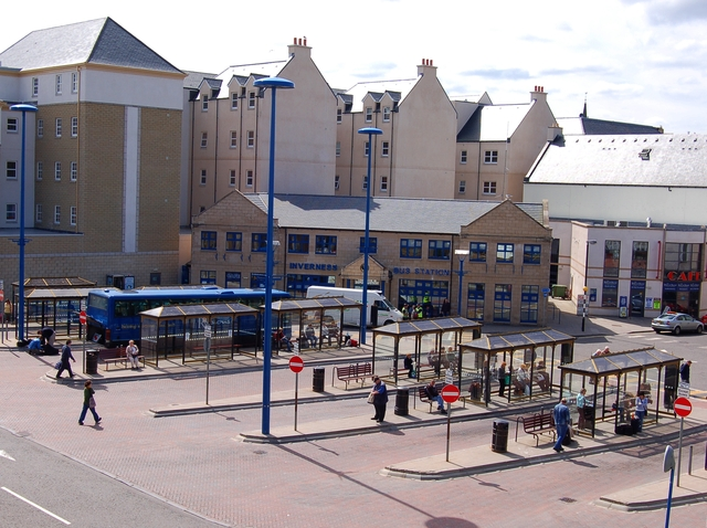 Inverness Bus Station The morning coach to Fort William about to depart.